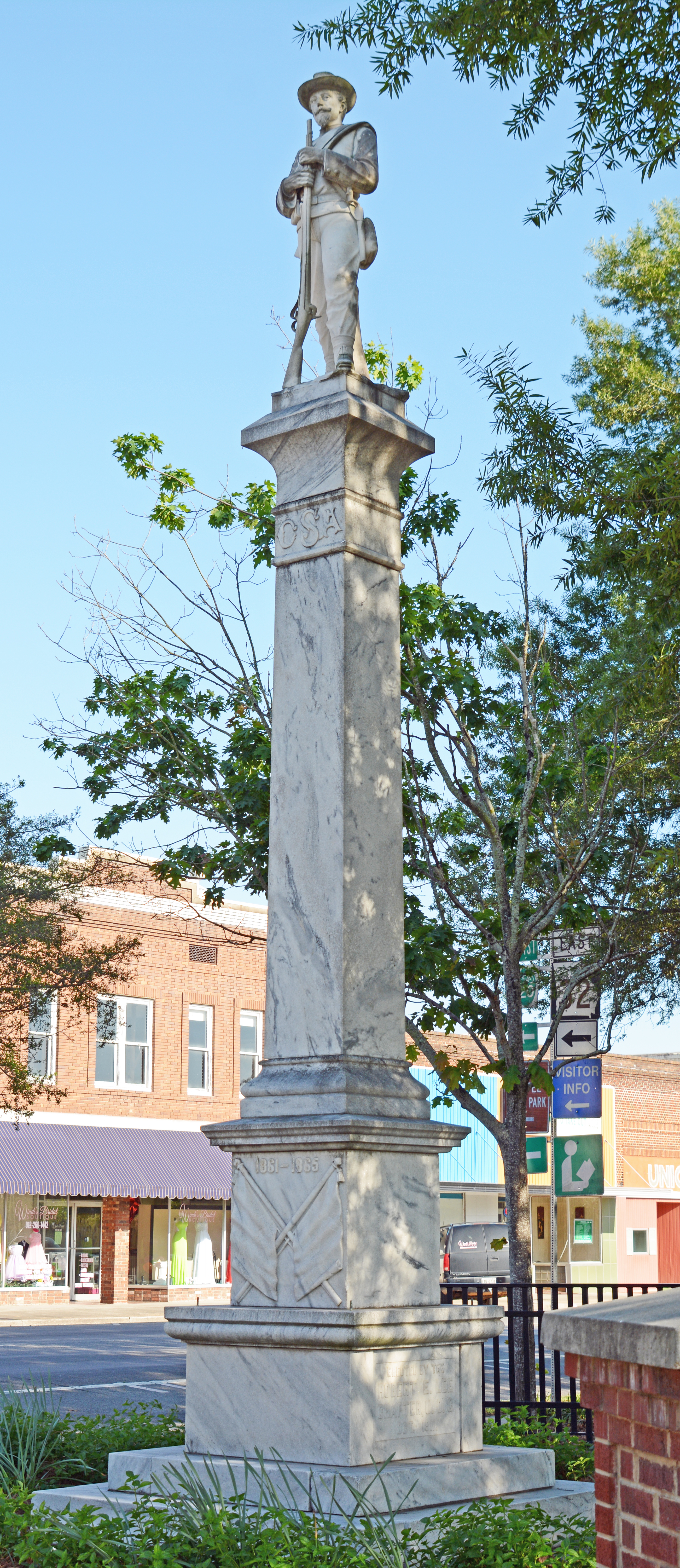 Confederate memorial in Douglas, Georgia, US, at the corner of Peterson and Ward, errected by the United Daughters of the Confederacy, 1911. Inscriptions: 1861-1865 In memory of our Confederate soldiers Erected by the Robert E. Lee chapter of U. D. C. Oct. 1911.